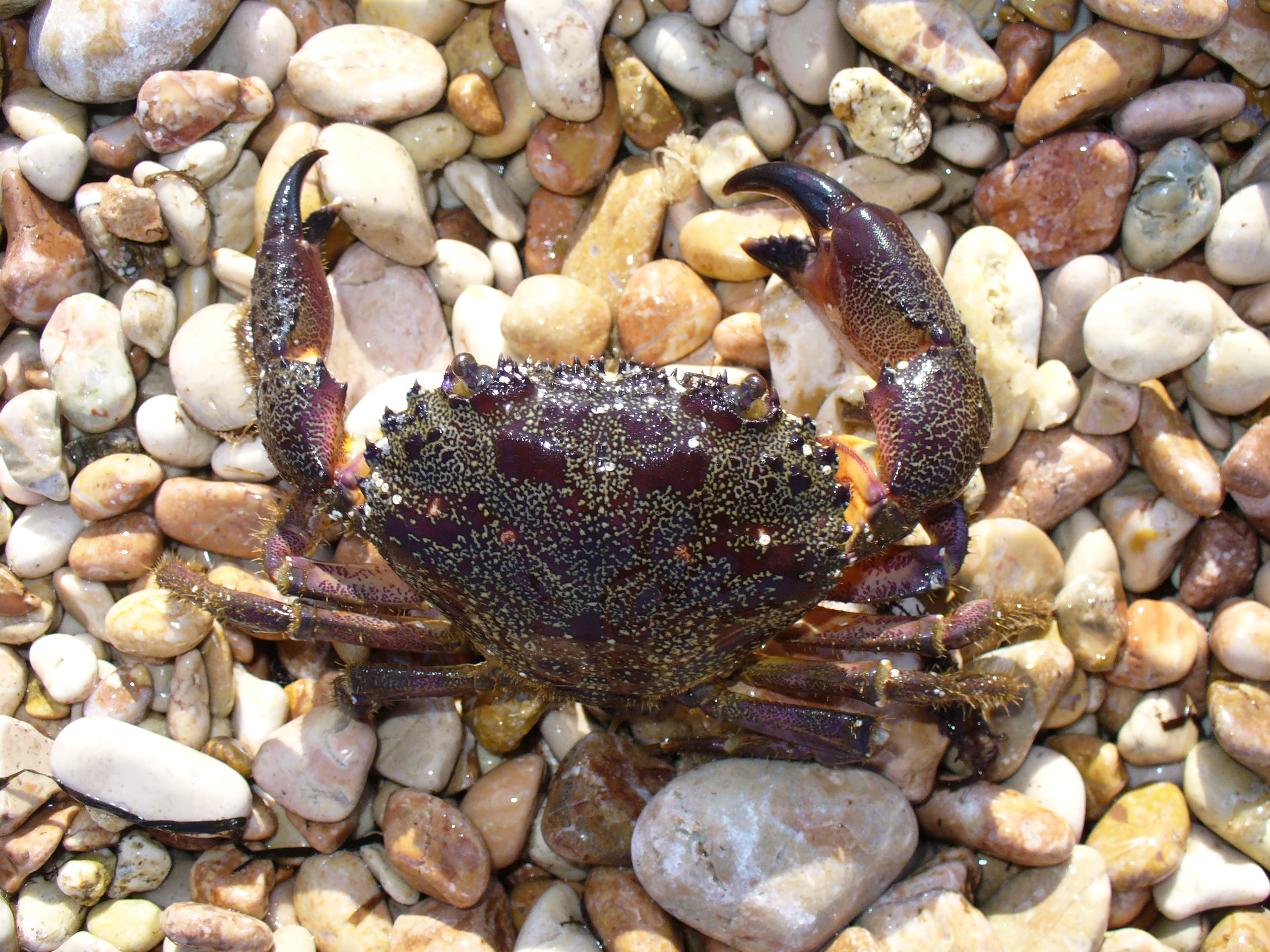 Eriphia verrucosa, sometimes called the warty crab or yellow crab